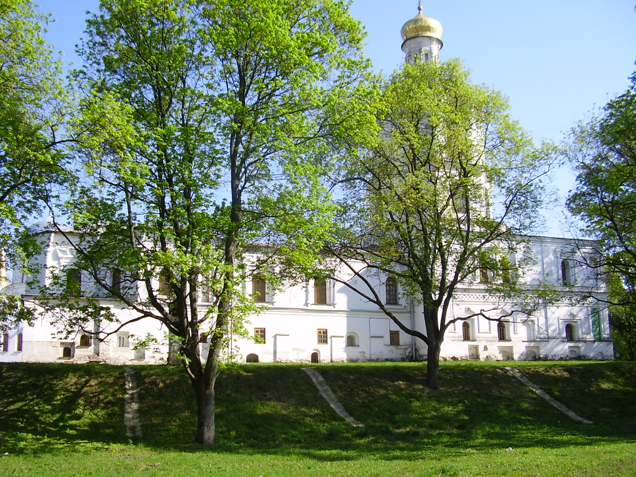 Collegium at dytynets in Chernihiv, view 1